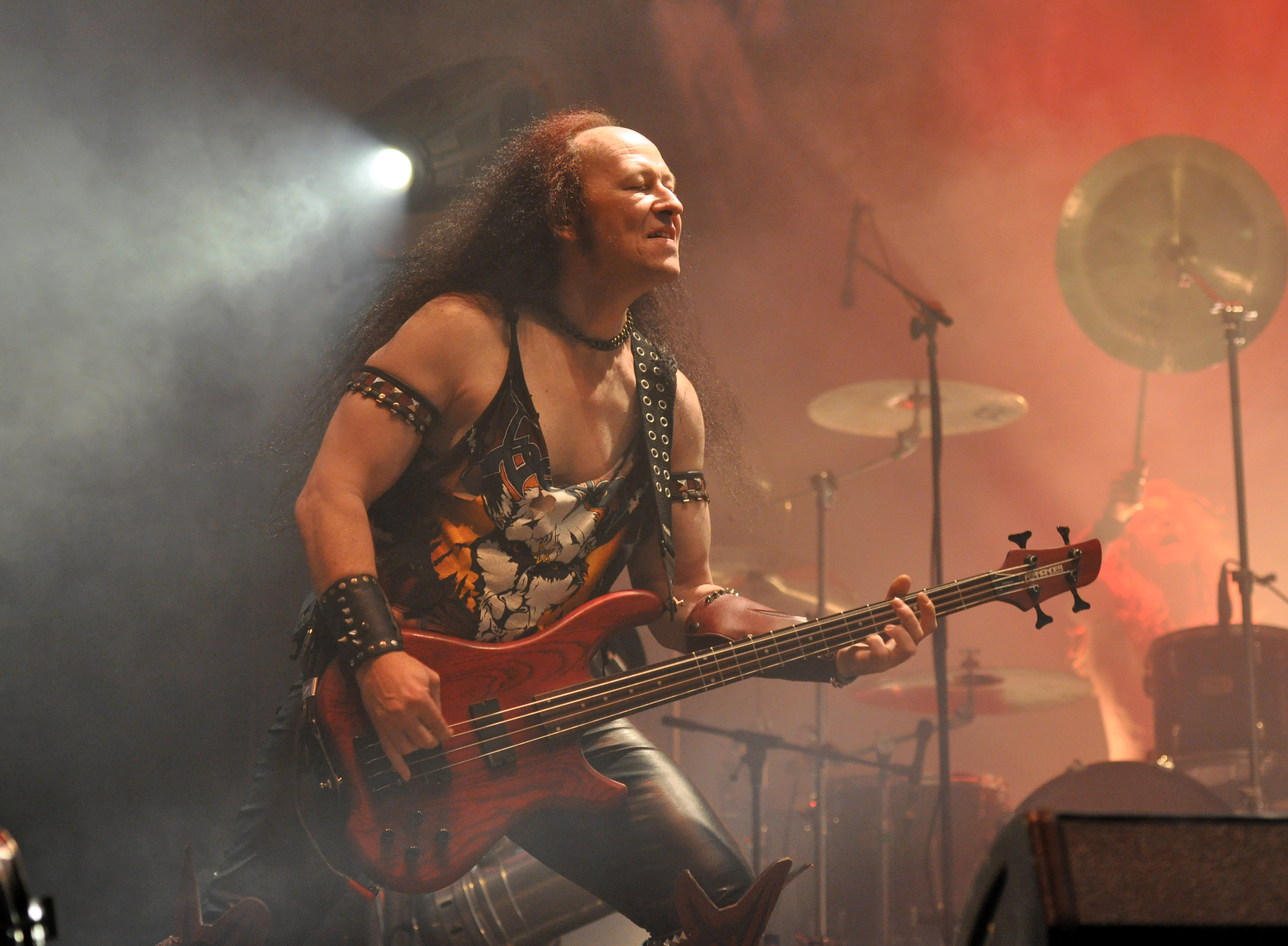 Venom at Party.San Metal Open Air 2013